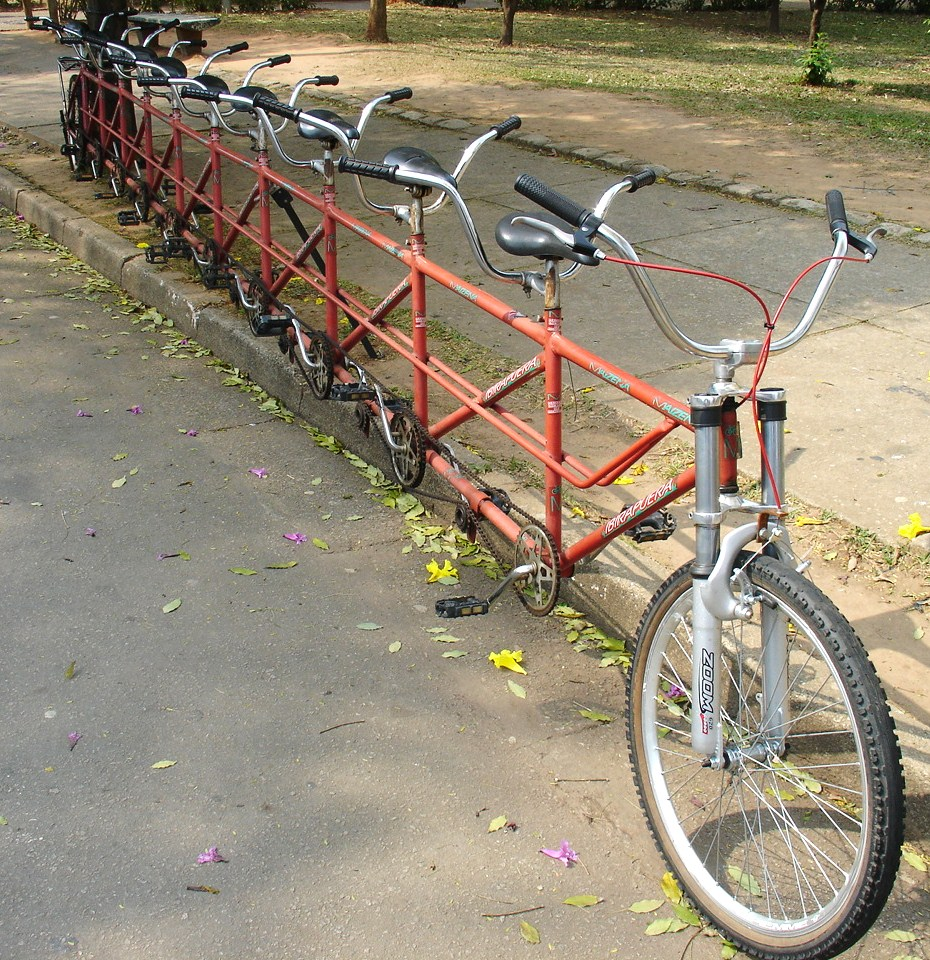 10-people bicycle